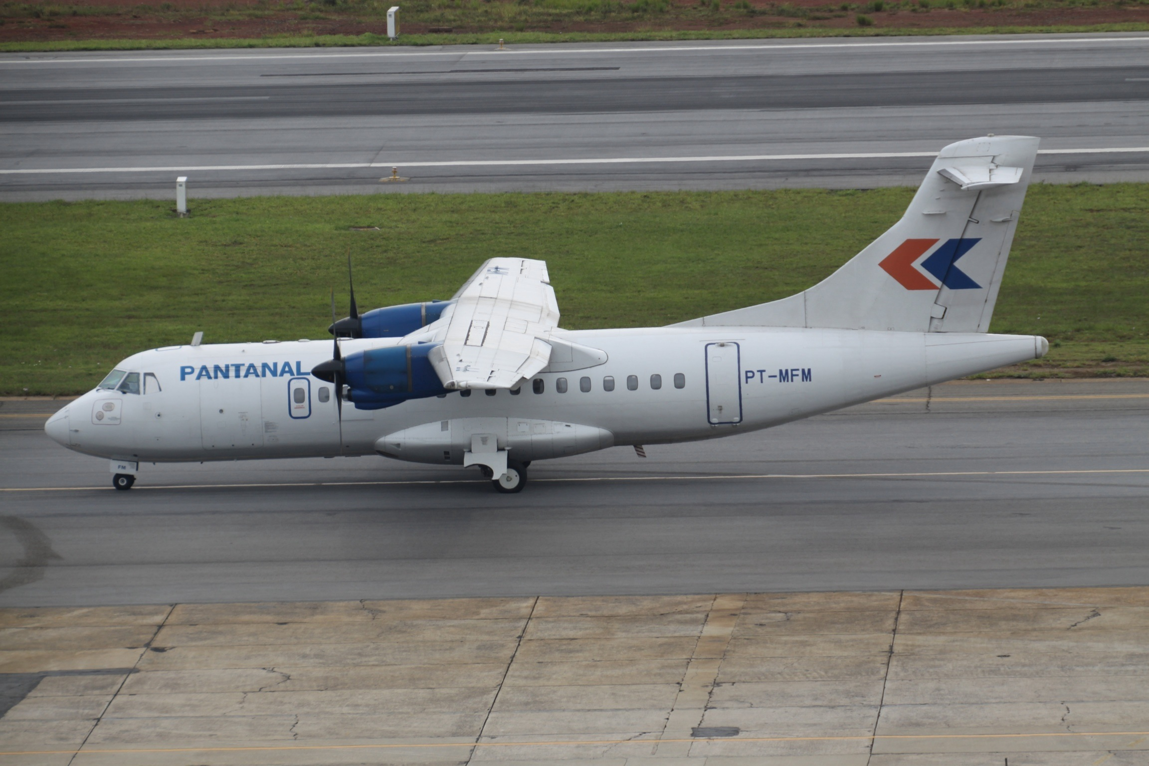 At Sao Paulo Congonhas